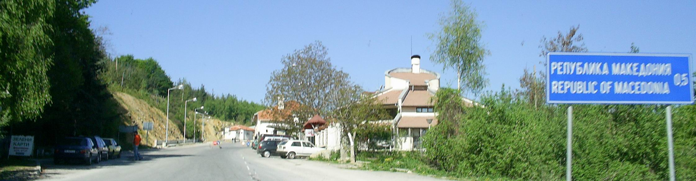 Gyueshevo, The Border between Bulgaria and Republic of Macedonia